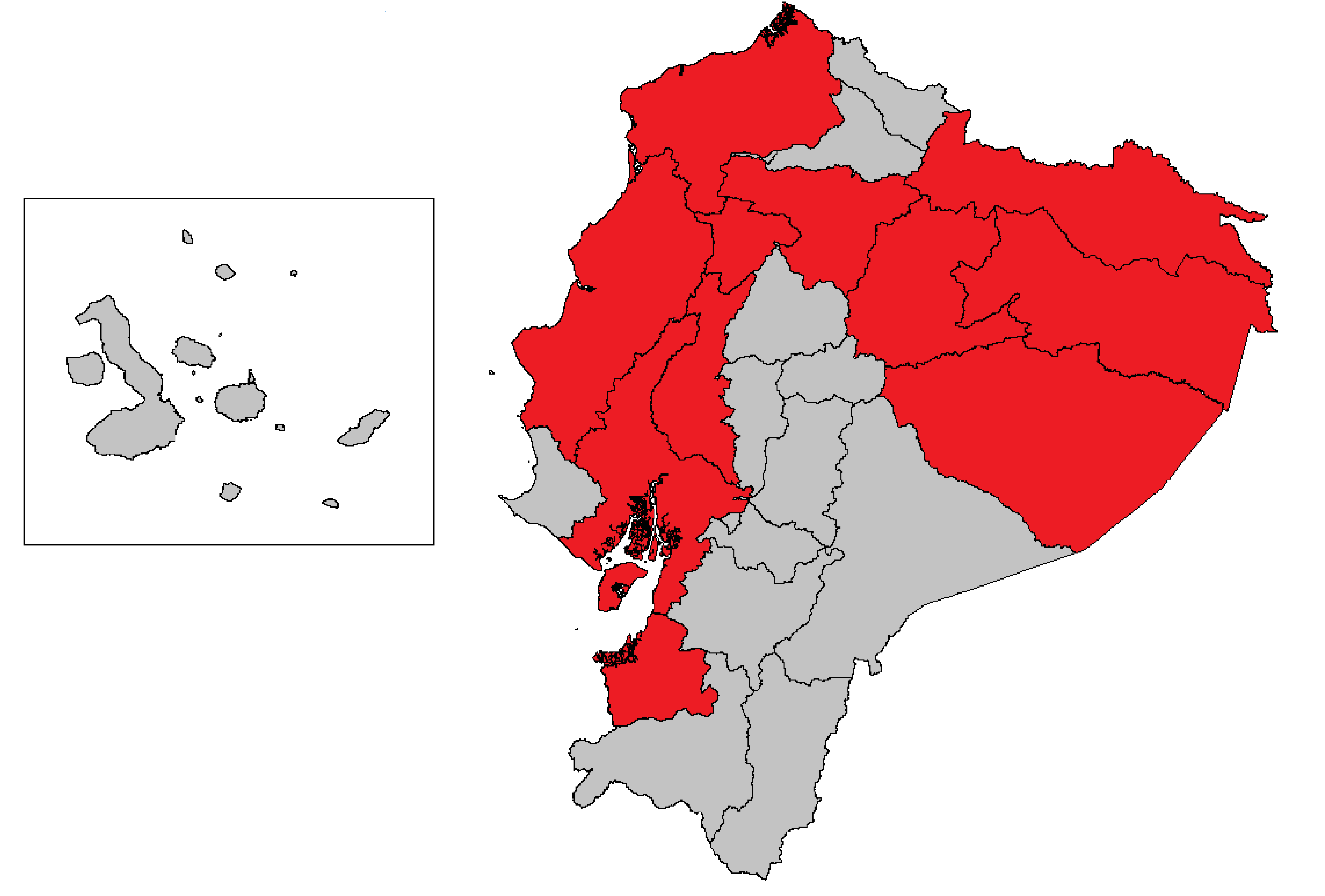 Dengue epidemic 2019-2020 in the Republic of Ecuador